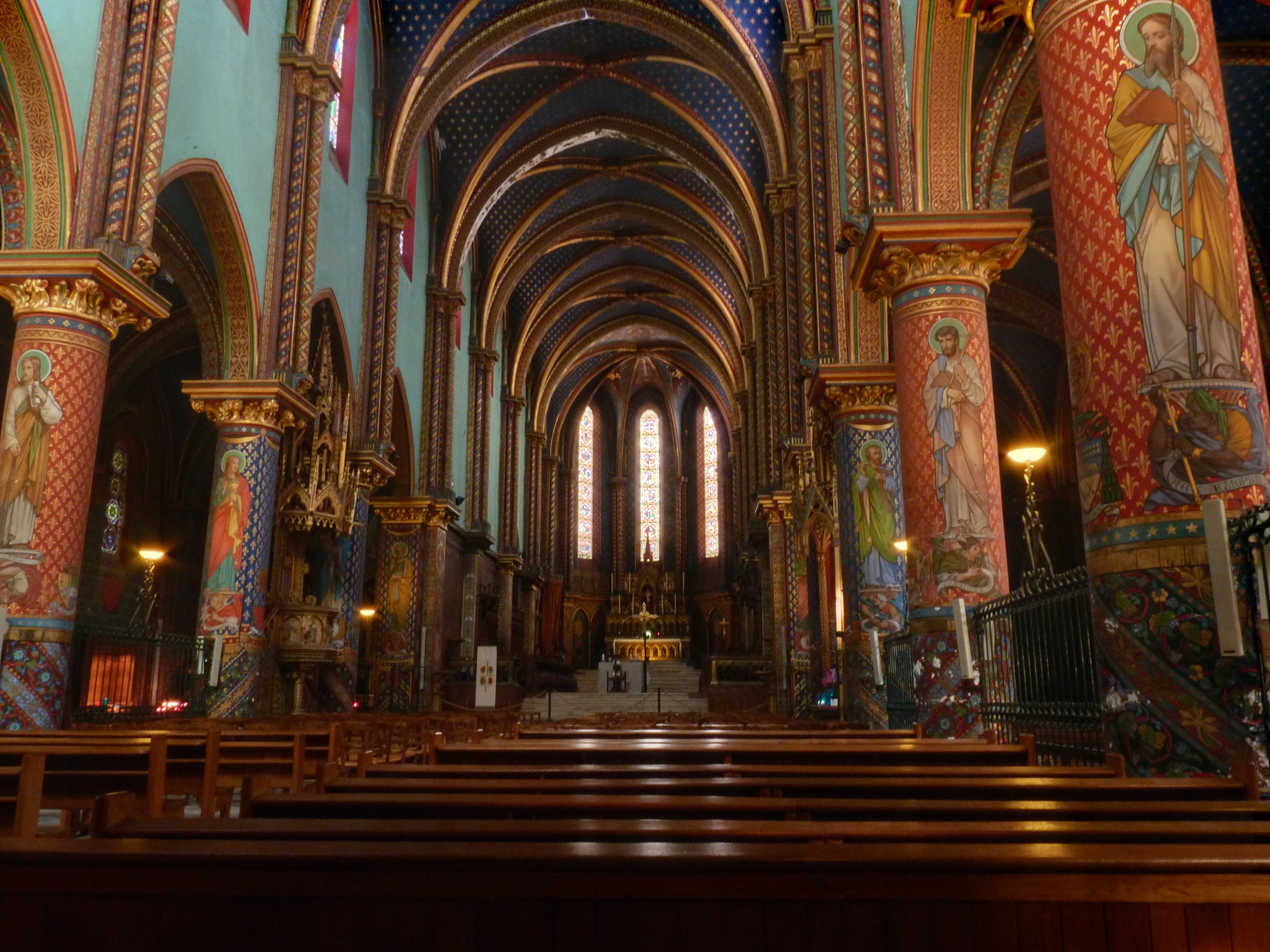 Interior view of the Frigolet Abbey (Tarascon, France). .